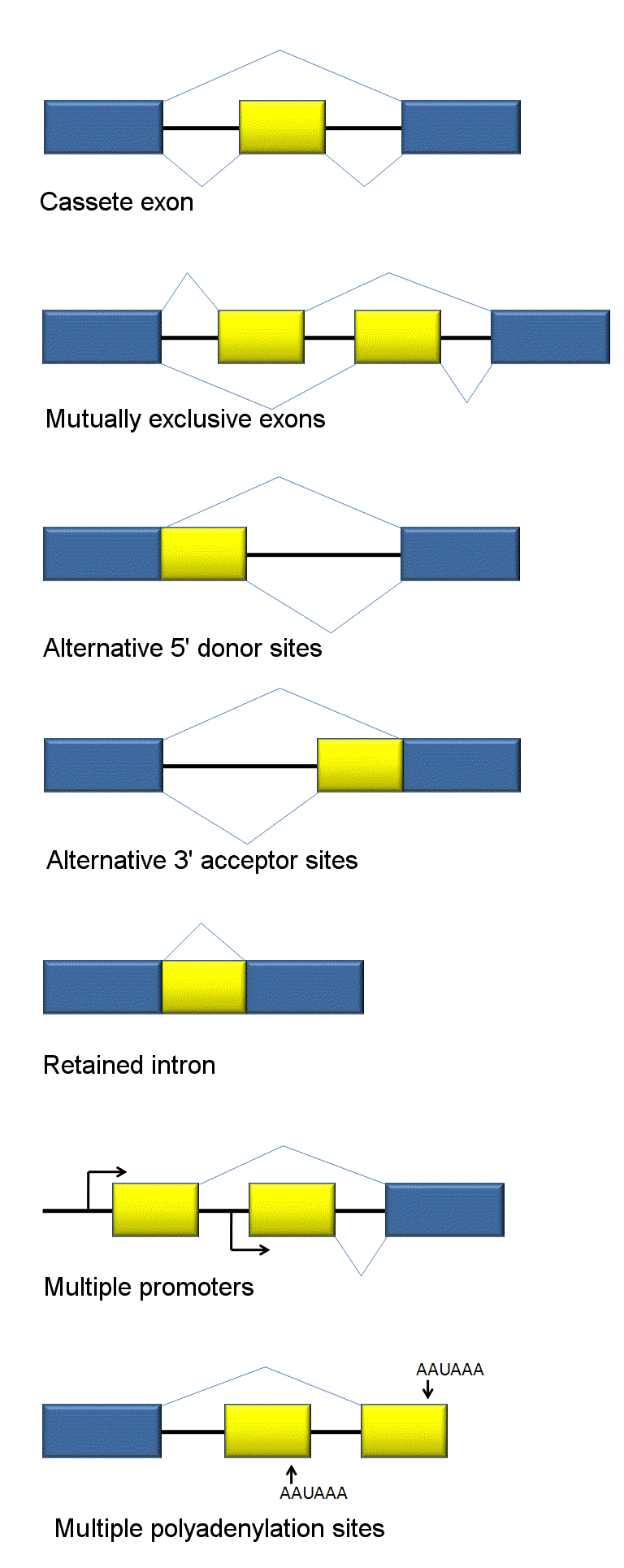 Collection of basic types of alternative RNA splicing events